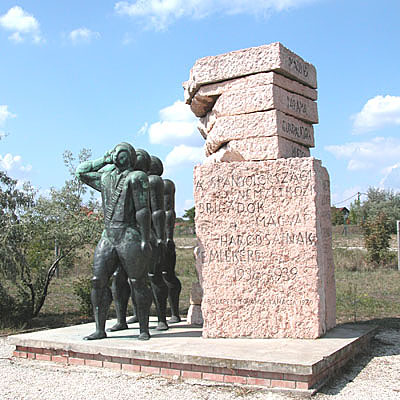 Memos Makris, Αγαμέμνων Μακρής, Μέμος Μακρής, Makrisz Agamemnon: Memorial sculpture